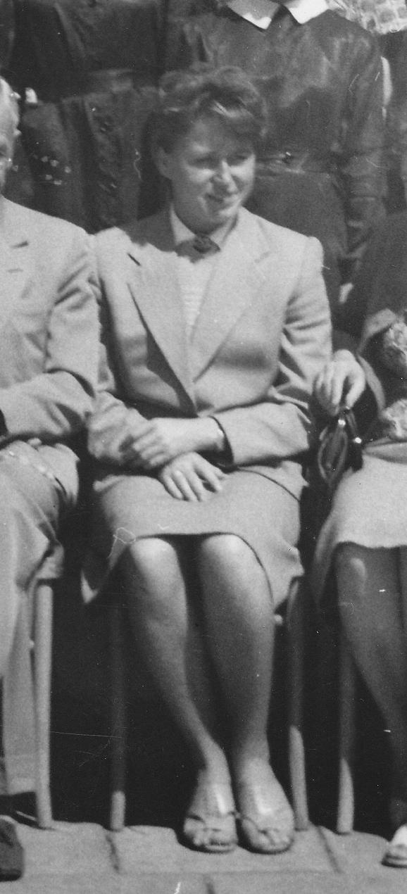 Maria Ciach Michalak as a school teacher in Warsaw.